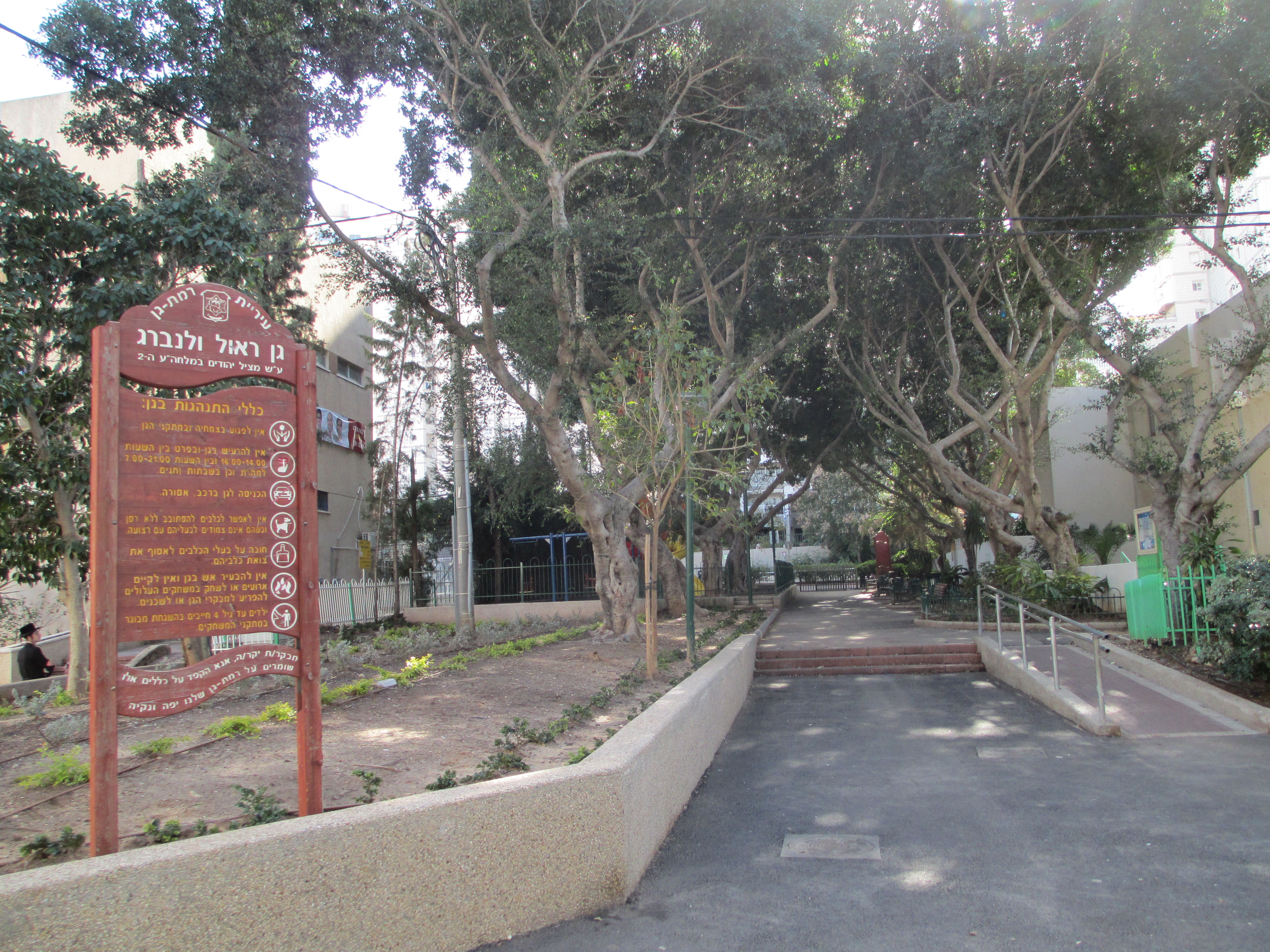 Raul Walenberg garden in Ramat Gan